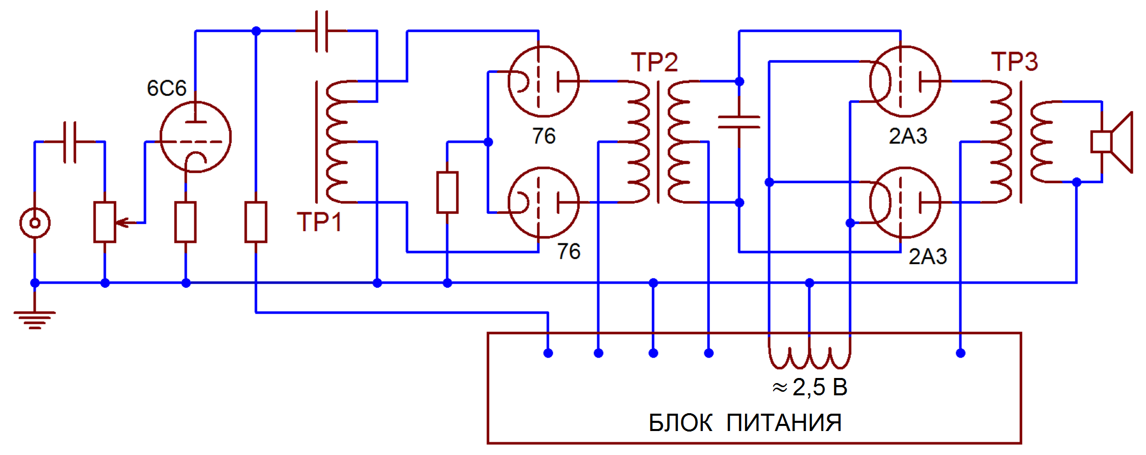 A typical 1930s public address amplifier - adapted from the 1937 Thordarson brochure (the original had 4, not 2 output tubes)